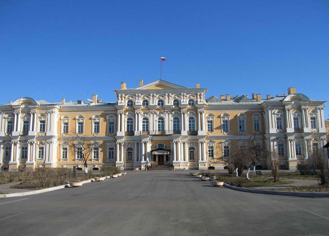 Imperial Corps of Pages Building (former Vorontsov Palace), St. Petersburg (architect Francesco Bartolomeo Rastrelli).